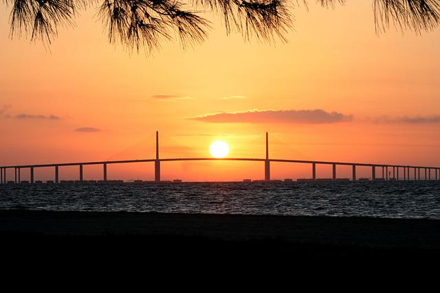 Sunshine Skyway Bridge as seen from Fort De Soto Park. Photo by Ronnie Boone, October 1, 2005.